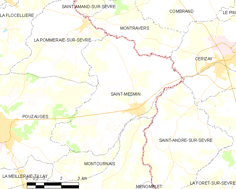 Map of French municipality Saint-Mesmin